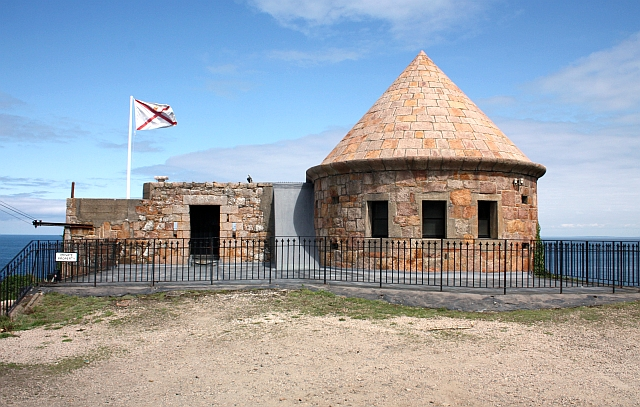 La Crete Fort. Guns were here in 1813 during the Napoleonic wars and in 1834 it was improved with a guardhouse and new magazine. It was manned by one officer and 32 other ranks. In 1848 it housed six 32-pounder cannon, but with the cessation of Anglo-French tensions it lost its military importance. During the German occupation it housed a 3.7 cm PAK anti-tank gun, one heavy machine gun, two light machine guns, a mortar and a 30cm searchlight manned by three NCOs and 17 other ranks. Today it is used as holiday accommodation.